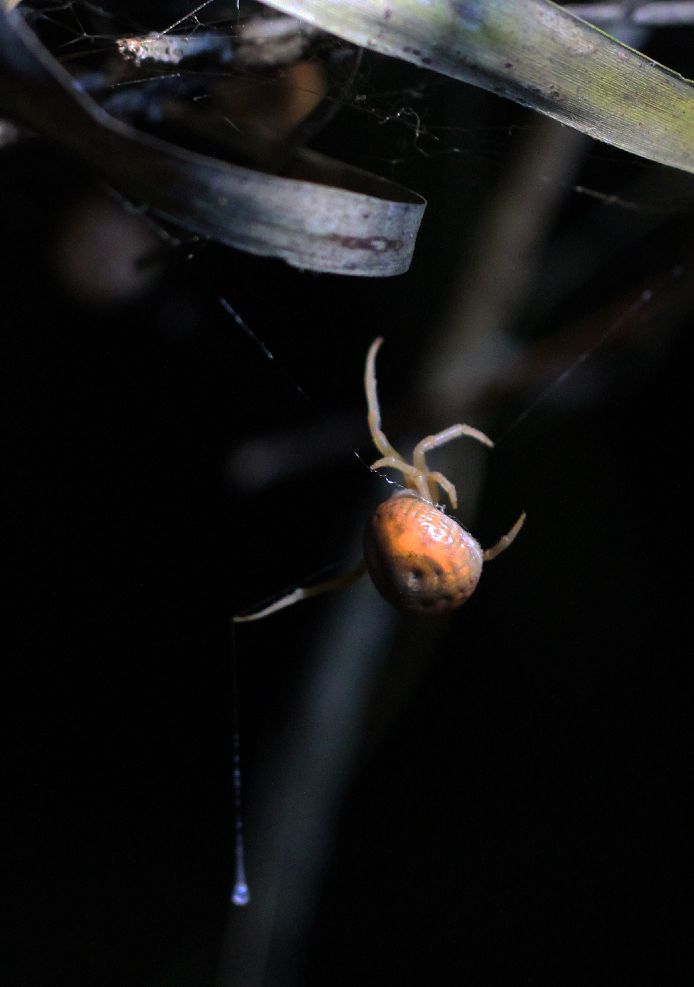 Bolas Spider - Mastophora bisaccata, Okaloacoochee Slough WMA, Florida